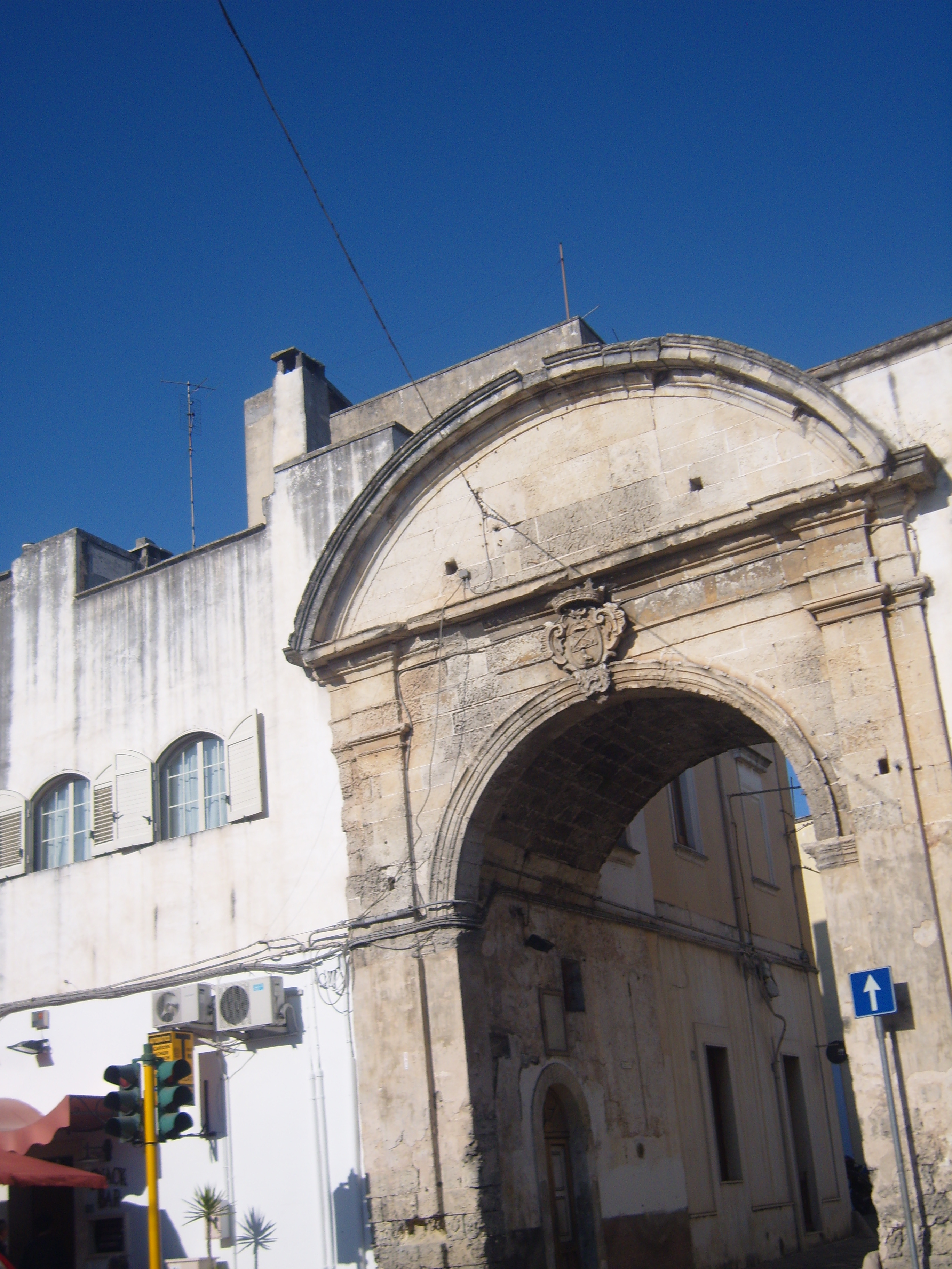 Porta Luce in Galatina, Province of Lecce - Apulia (Italy)